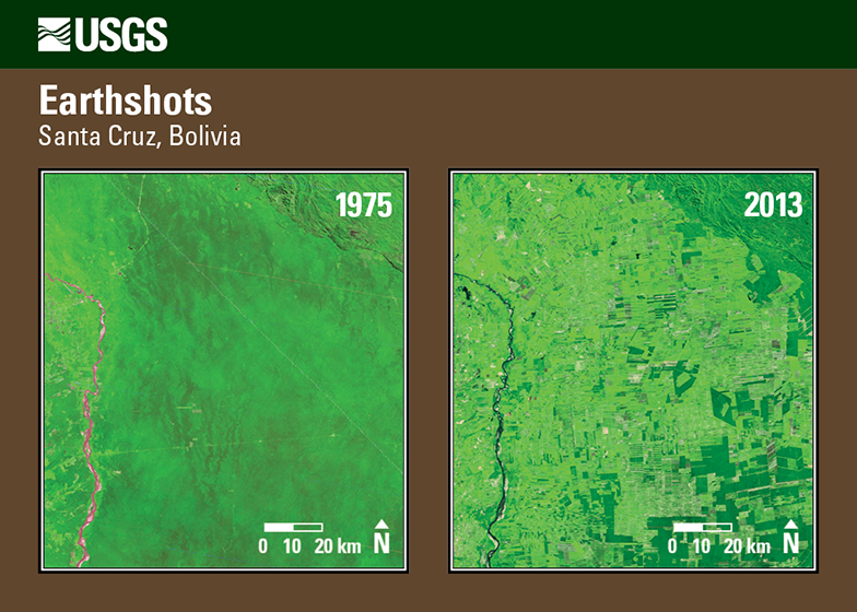 Vegetation transformation in Santa Cruz, Bolivia. Credit: U.S. Geological Survey Department of the Interior/USGS Landsat